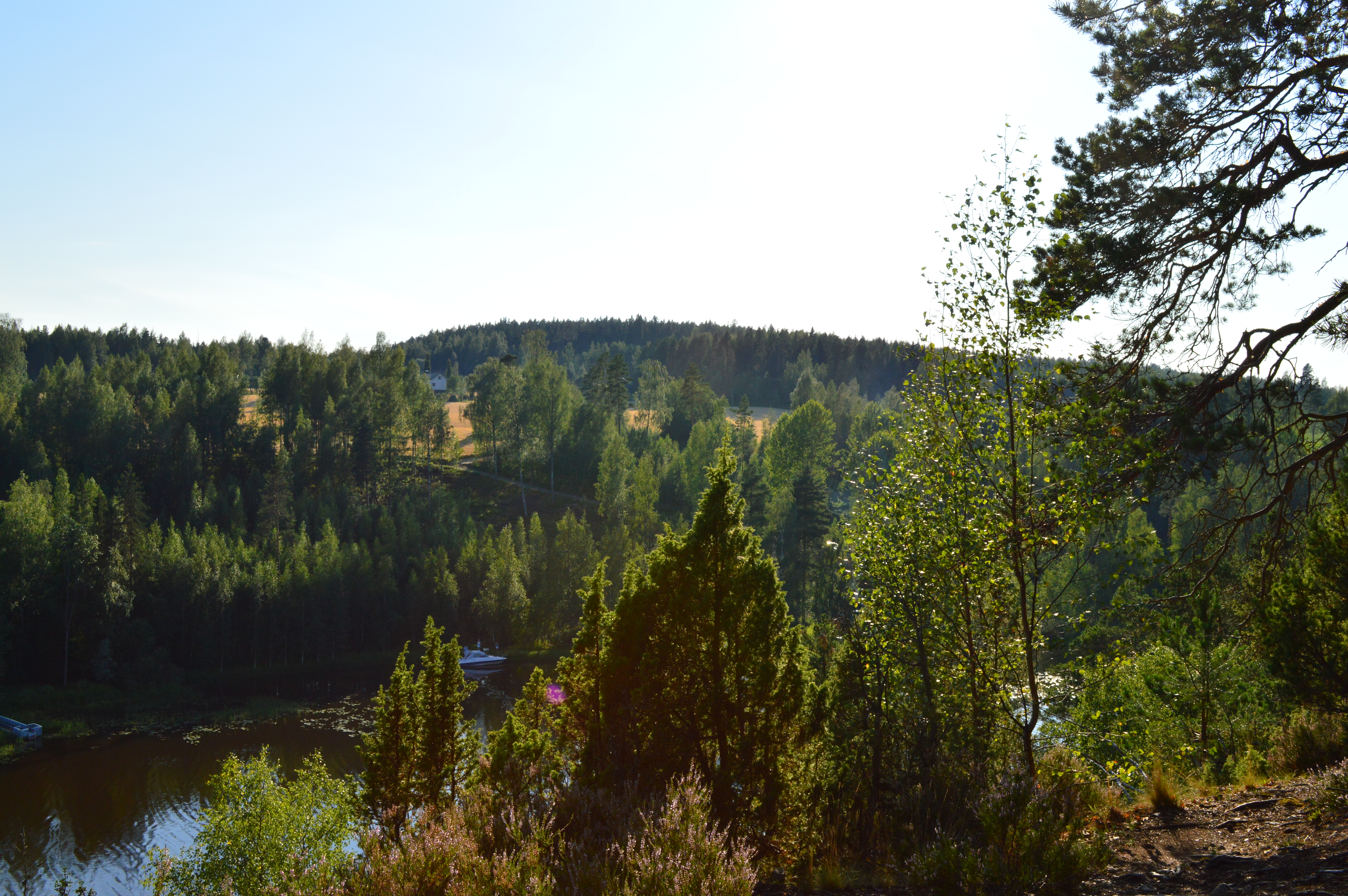 View across Lake Tupurlajärvi from the nature trail at the northern shore of the lake.